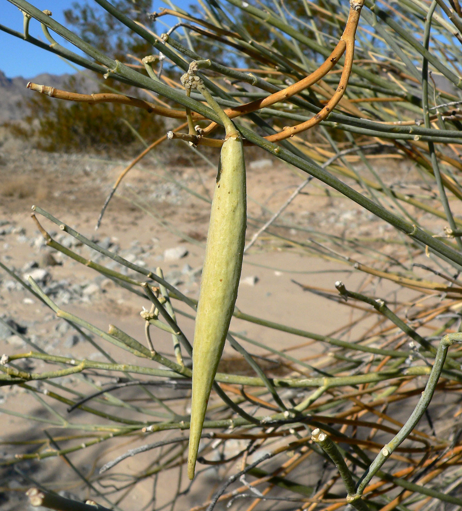 Asclepias subulata in wash east of the Dead Mountains near junction of Needles Highway and River Road, southern California